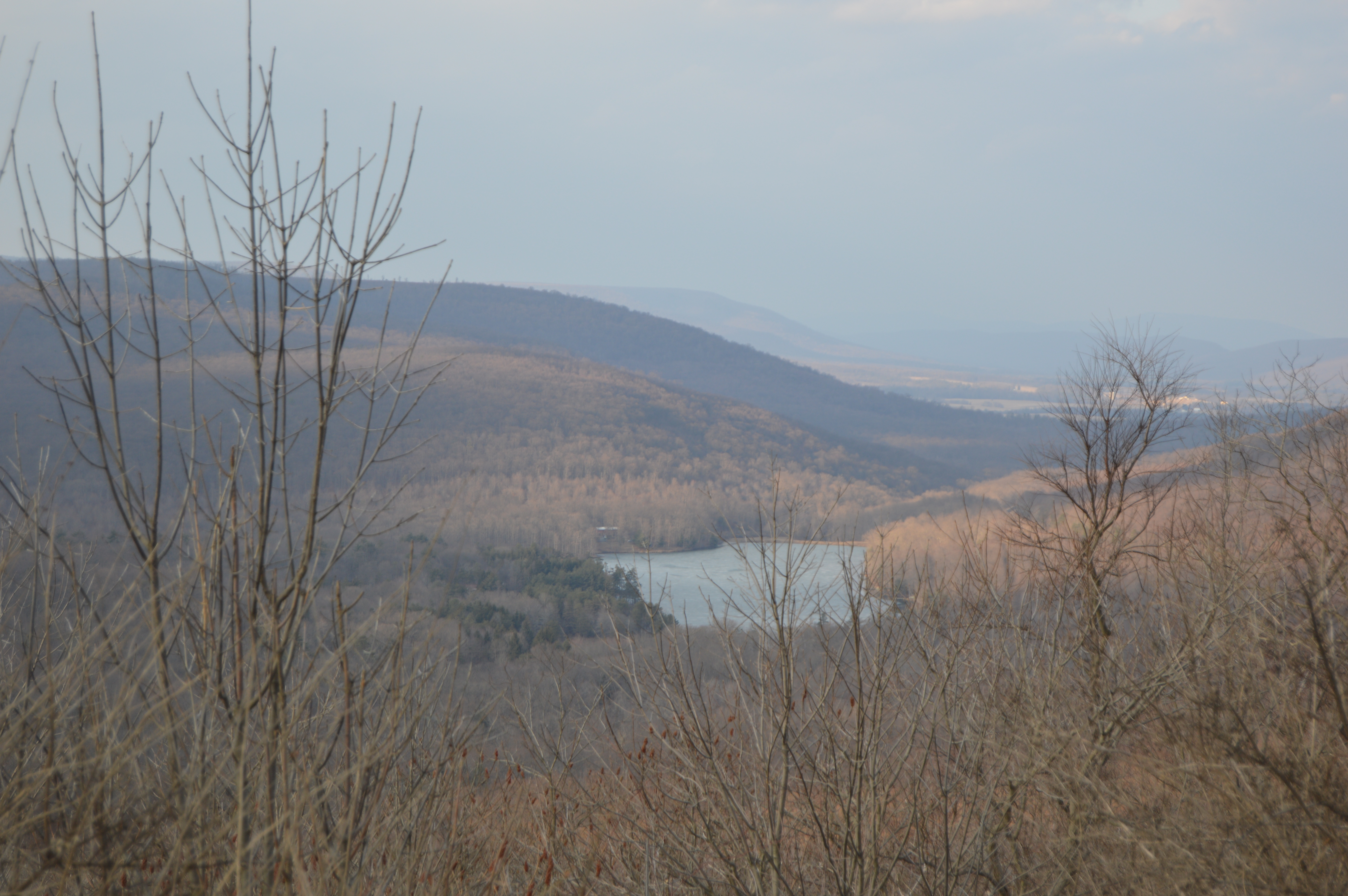 Overview of Valley-Hi, Pennsylvania, United States, a tiny (resort?) community centered around the lake at the center of the picture. Photo looks north-northeast from an overlook on U.S. Route 30.